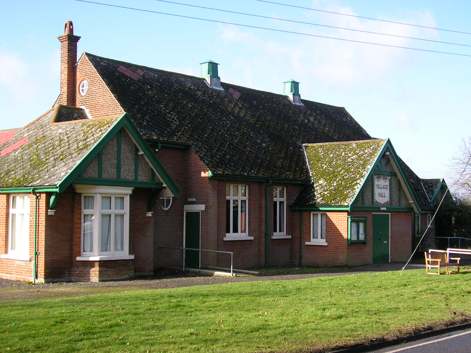 Great Bromley Village Hall in Parsons Hill